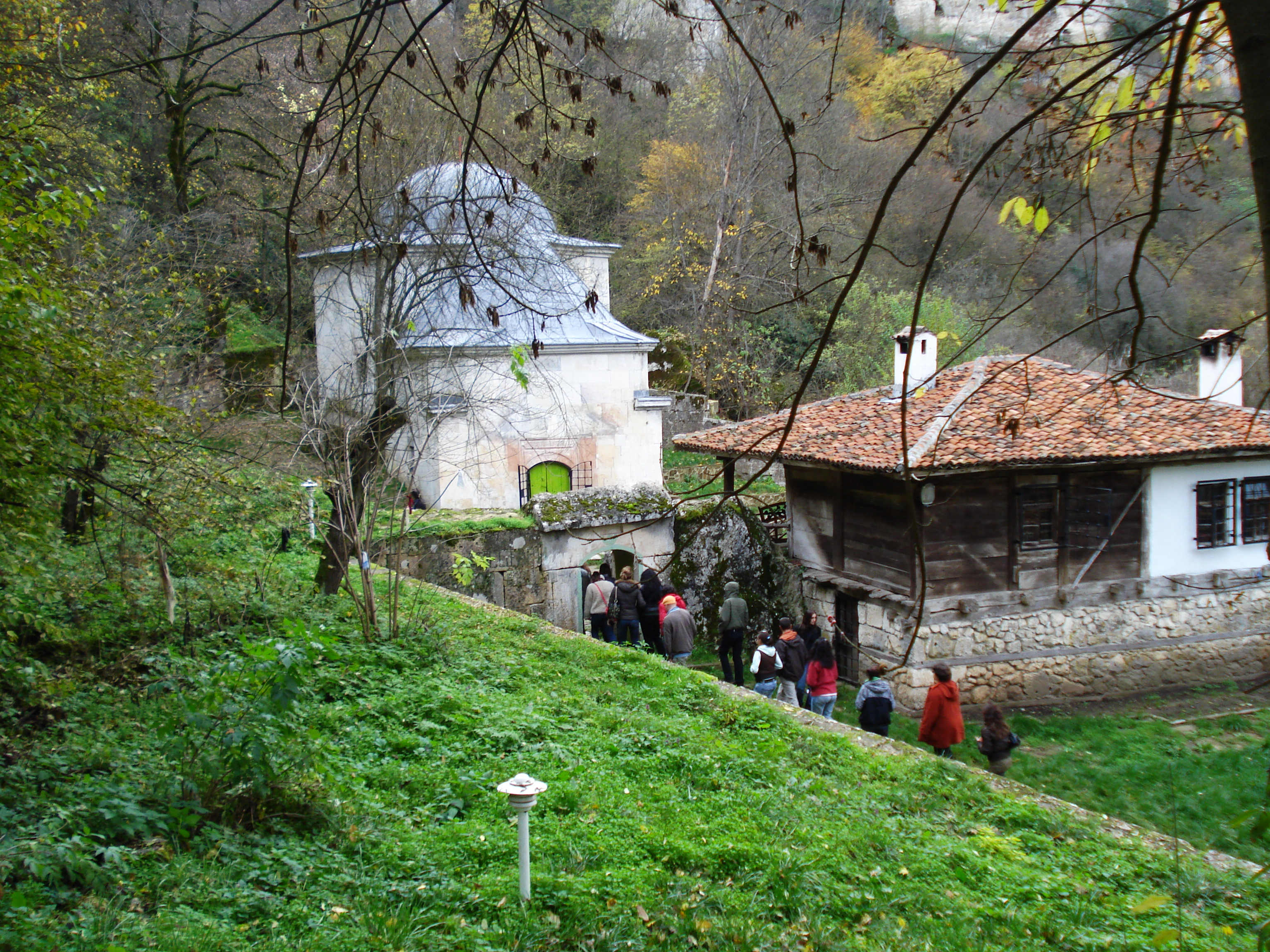 Entrance of Demir Baba Teke, sacred alevi place in North Eastern Bulgaria, Isperih region, Archaeological Reserve "Sborjanovo".